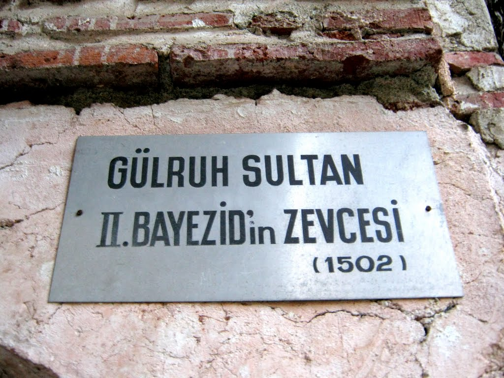 Board giving description of the mausoleum of Gülruh Hatun